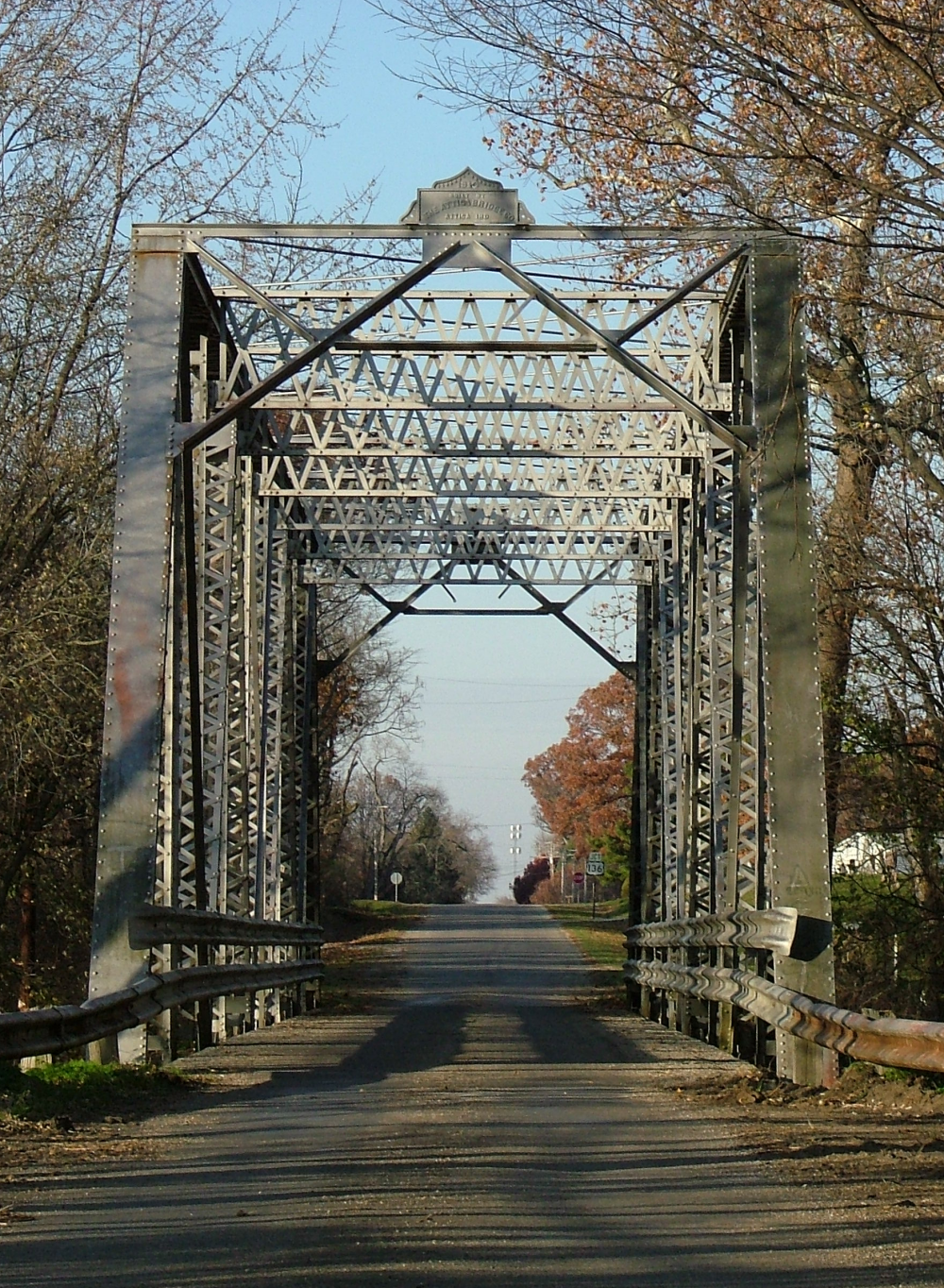 Looking north into Armstrong, Illinois across the 1910 iron bridge south of town, which crosses the Middle Fork of the Vermilion River. The sign on the bridge reads "1910 - Built by the Attica Bridge Co - Attica Ind".